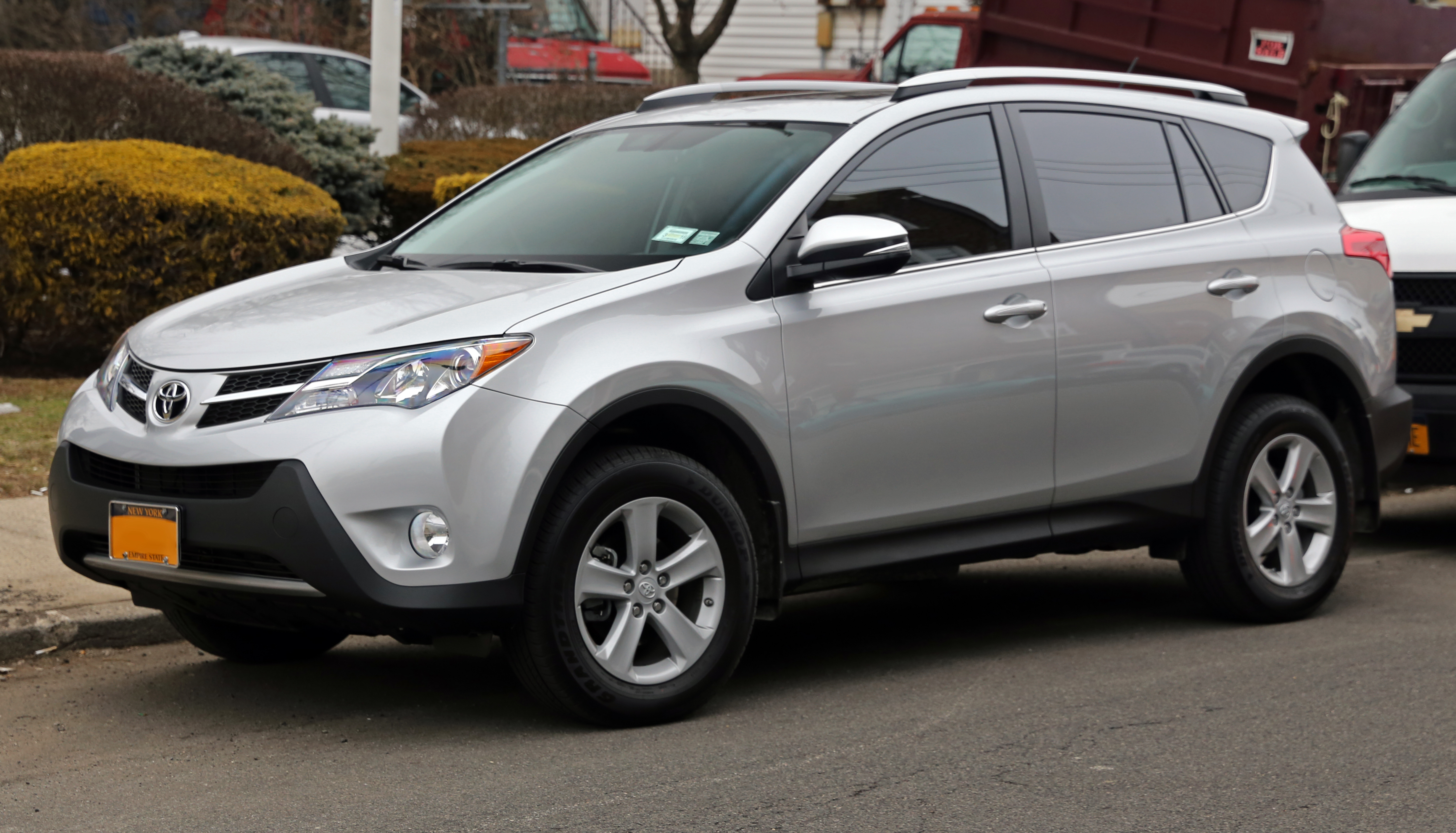 A 2013 Toyota RAV4 XLE AWD, six-speed automatic and 2.5 litre inline-four with 176hp.